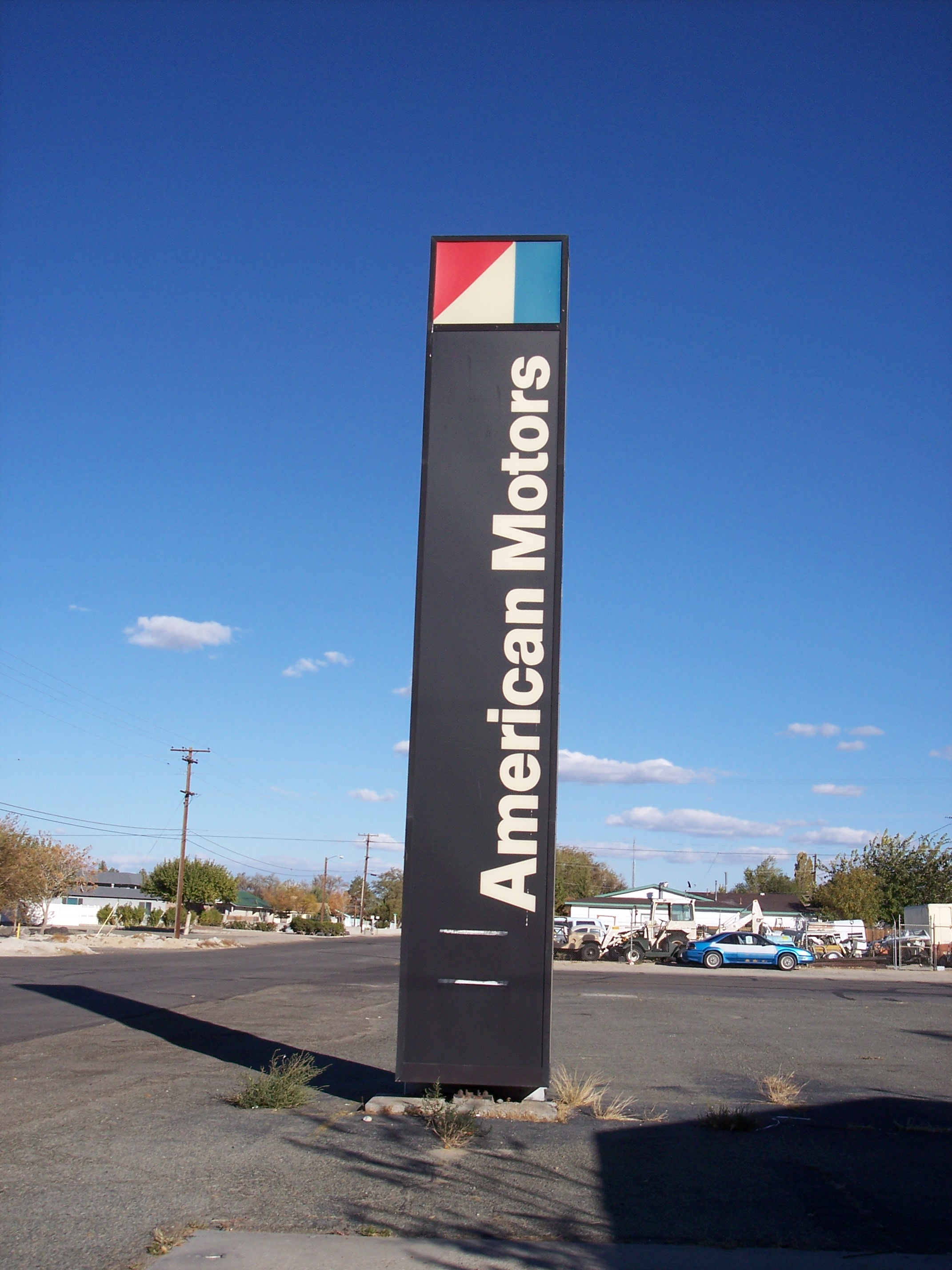 Photo of an American Motors dealership banner/billboard in Hawthorne, Nevada.